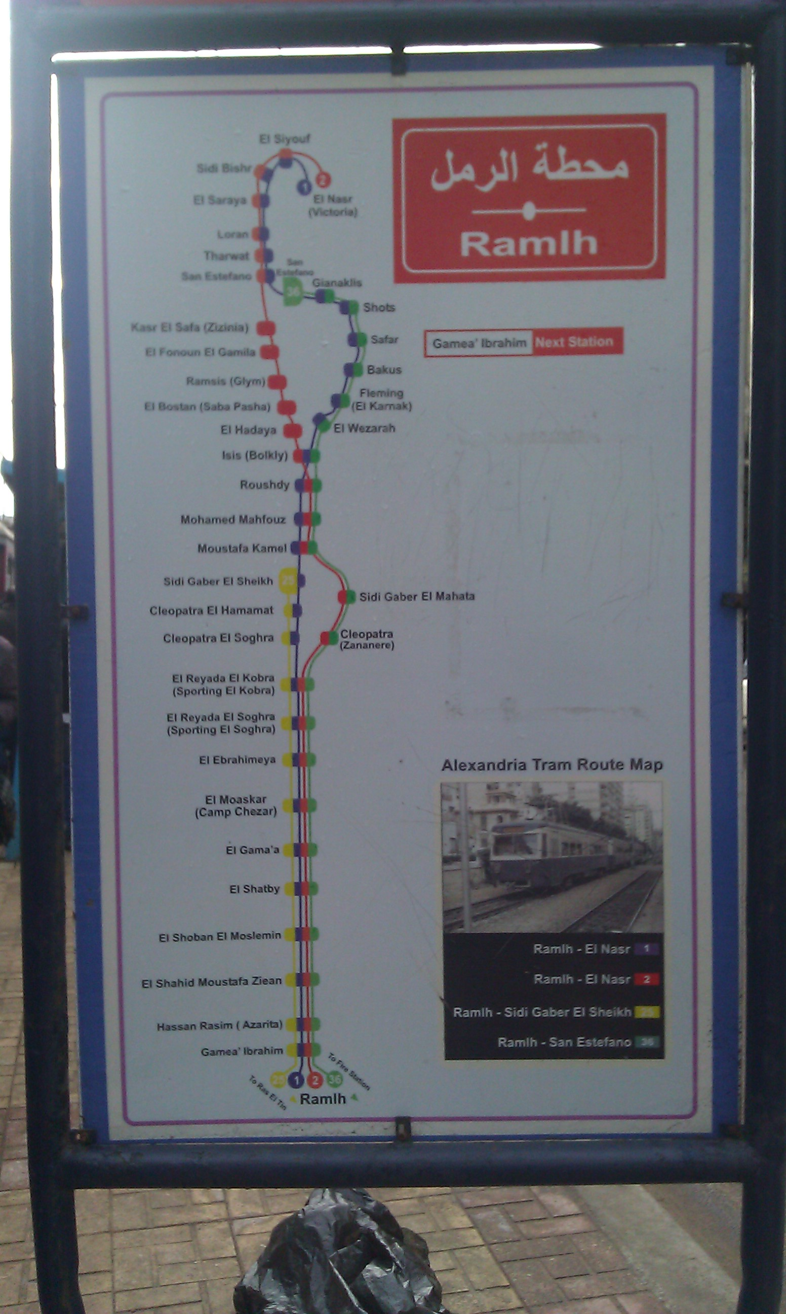 Route map of Alexandria tram system, Egypt taken at Ramlh terminus.